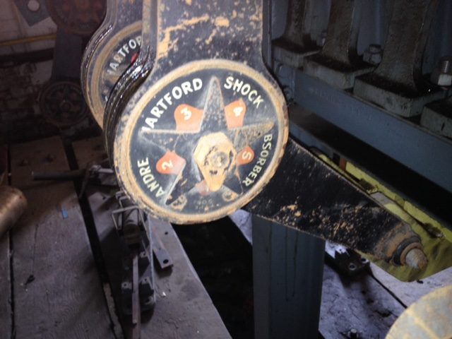 Andre Hartford friction disk shock absorber under Stafford No4. Signal Box British Rail Standard 4" centres lever frame as used to dampen mechanical shock and protect the electric lever locks. Photo taken 8th August 2015 shortly before the closure of the box.